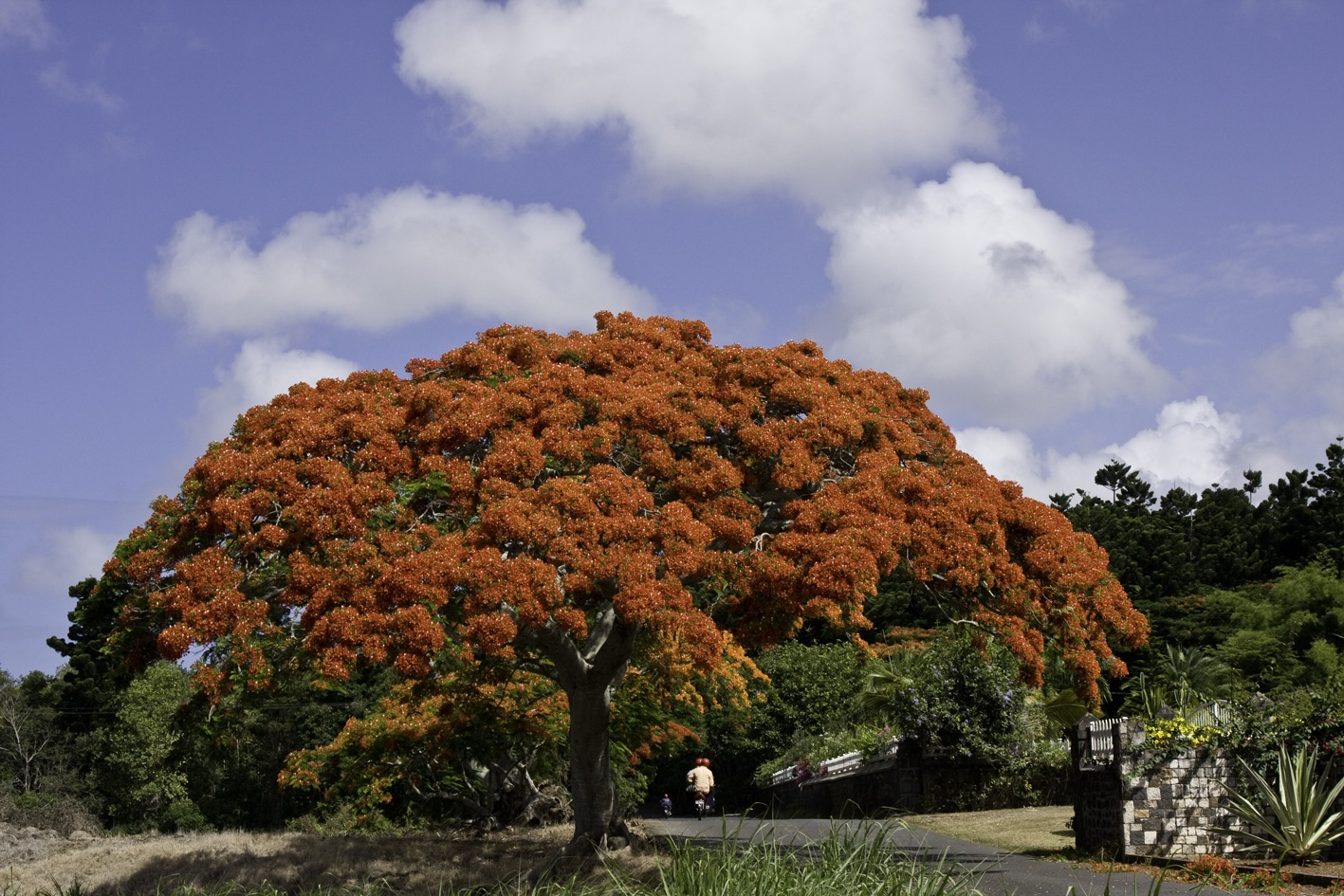 The Royal Ponciana (Flamboyant) on the Island of Mauritius